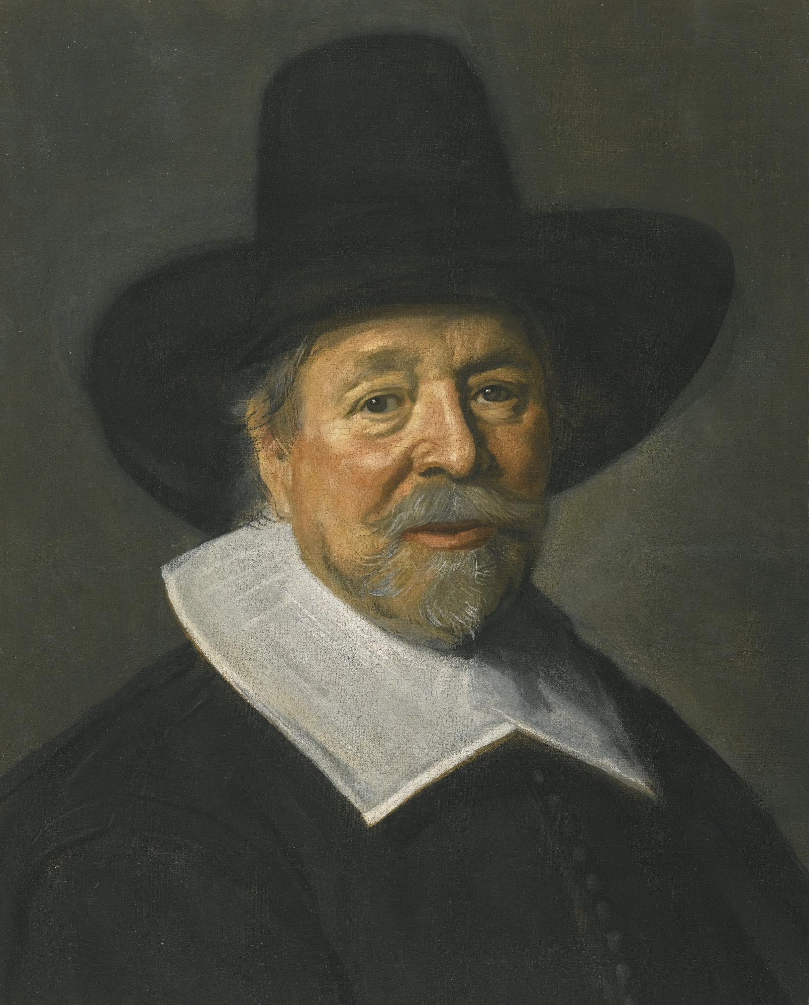 FRANS HALS, ANTWERP 1581/5 - 1666 HAARLEM, PORTRAIT OF A GENTLEMAN, PROBABLY THE REVEREND JOHN LIVINGSTON, oil on canvas laid on canvas, 58.4 by 47 cm.